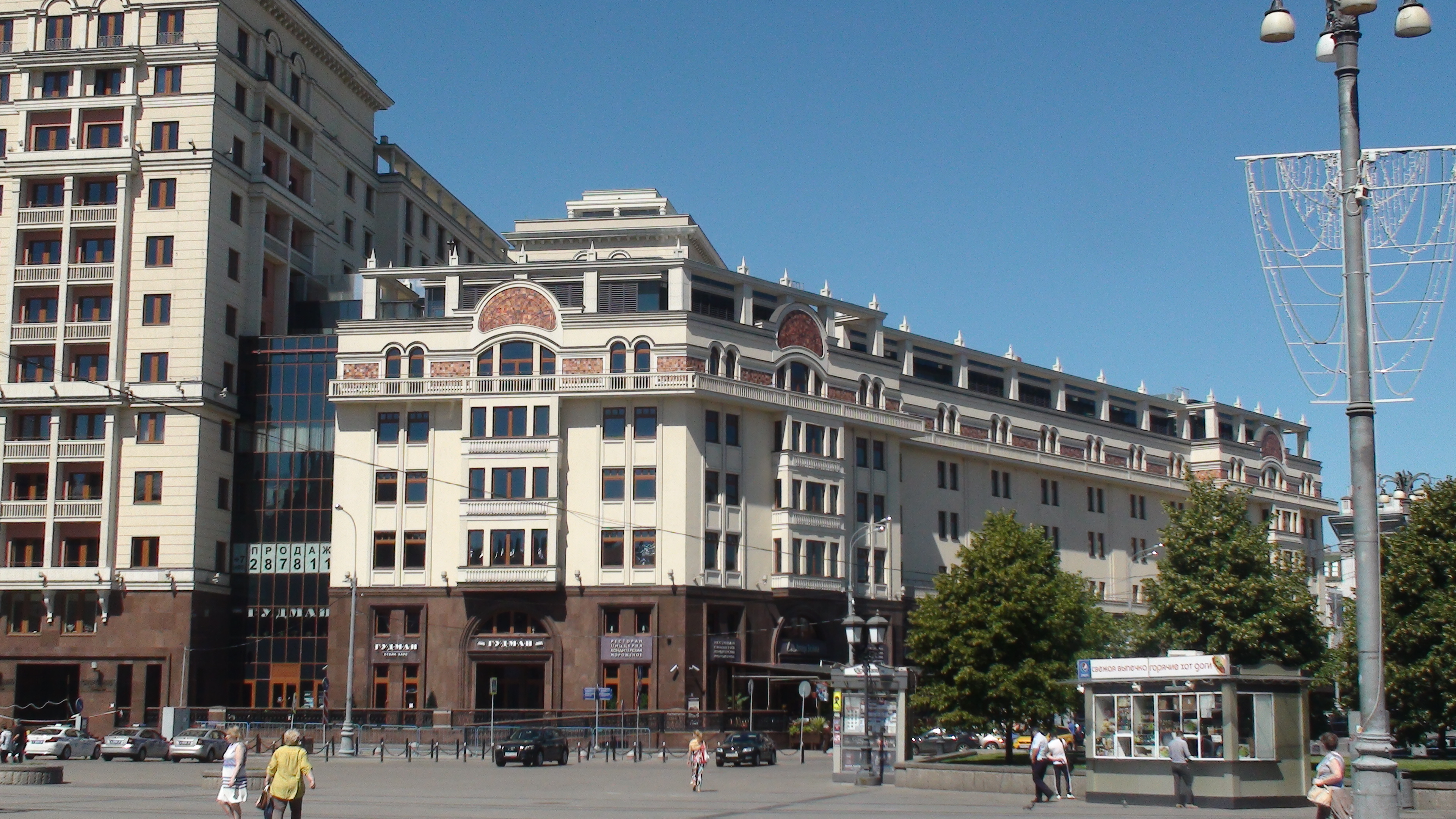 Гостиница Москва